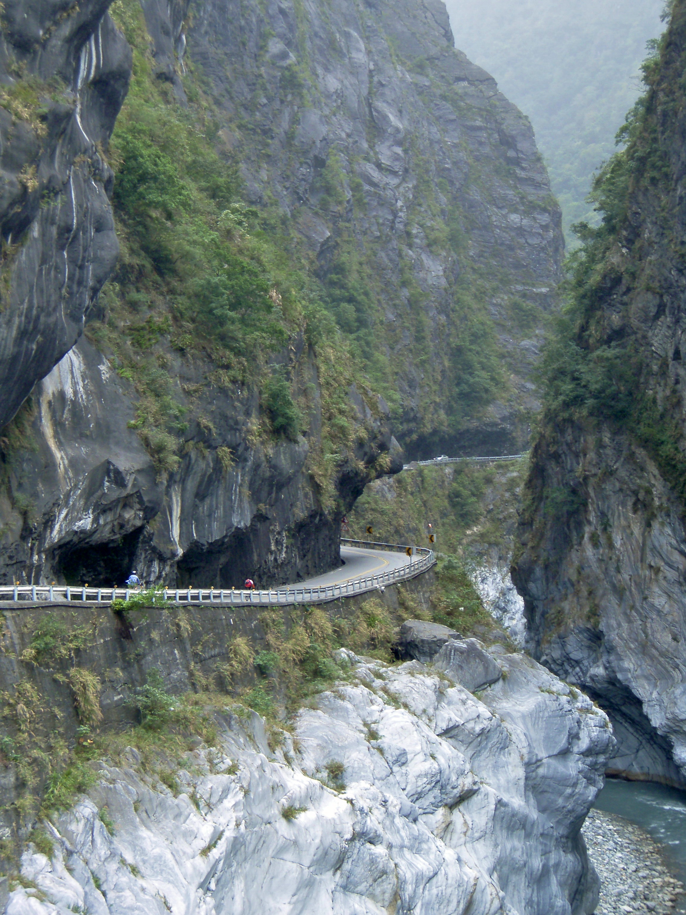 Spectacular view of the Taroko Gorge while biking on the Central Cross-Island Highway in Taiwan